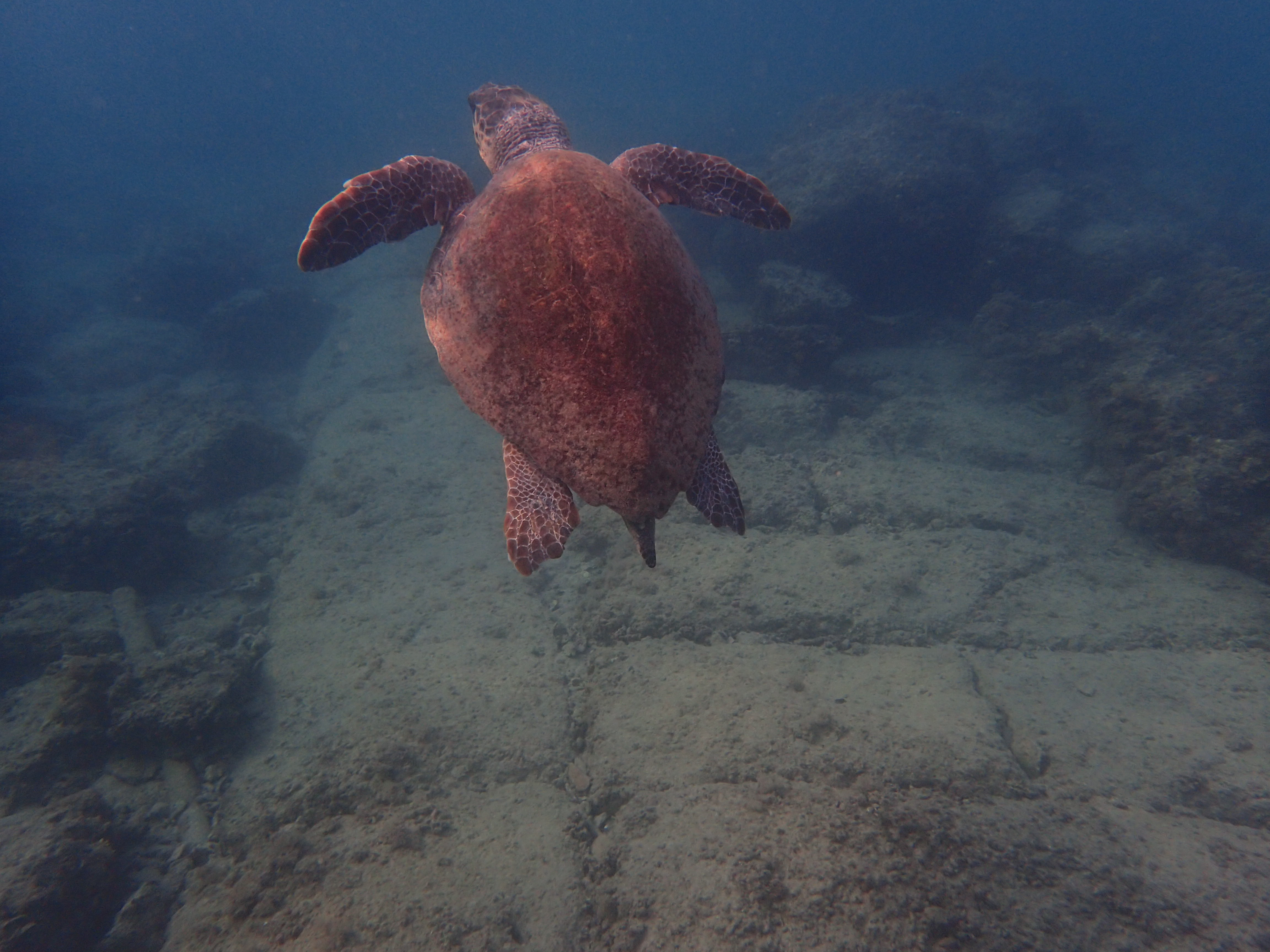 A Green Sea Turtle diving through the submerged ancient Egyptian Harbour off Tyre/Sour, Lebanon